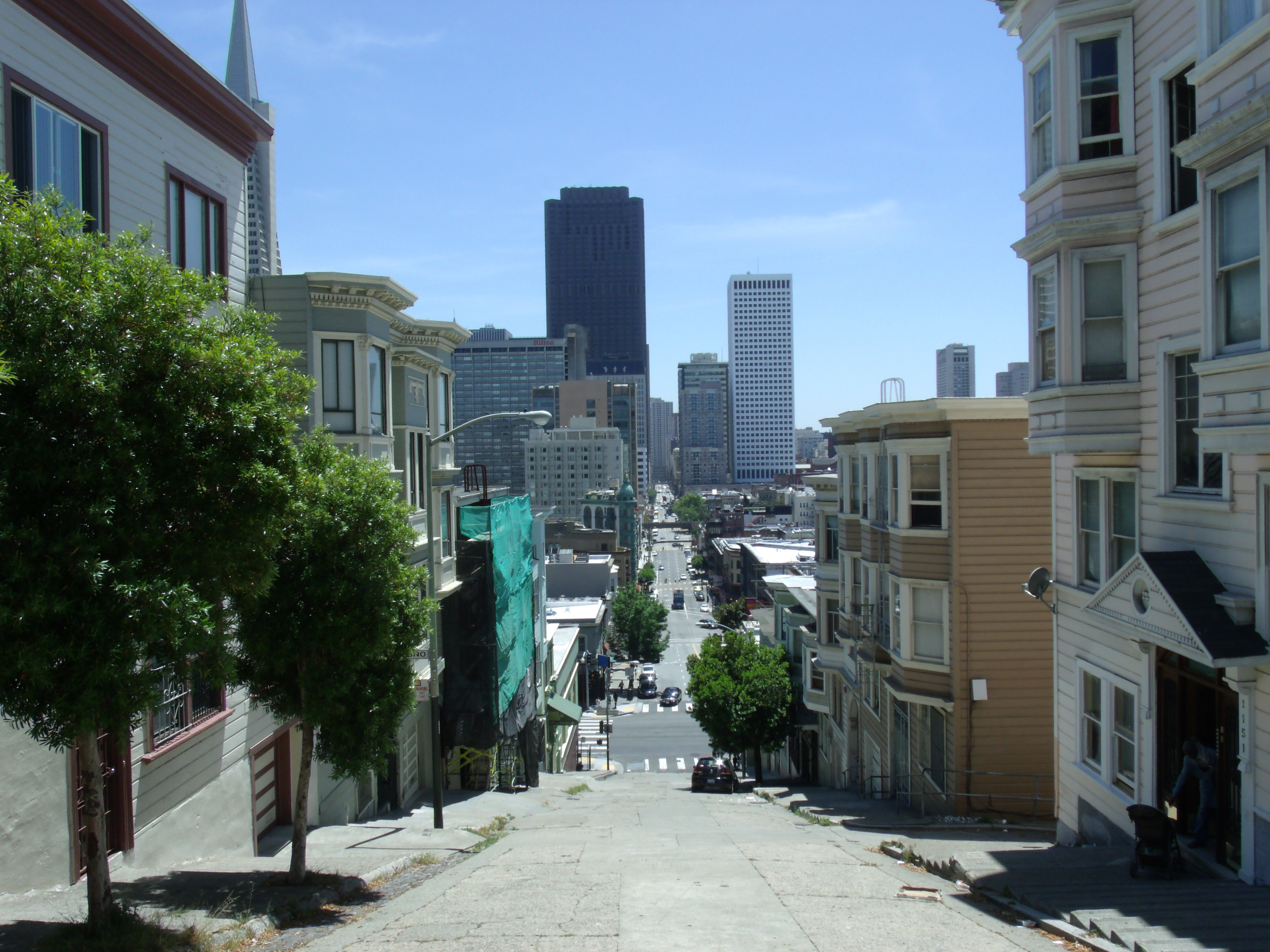 Kearny St. San Francisco California